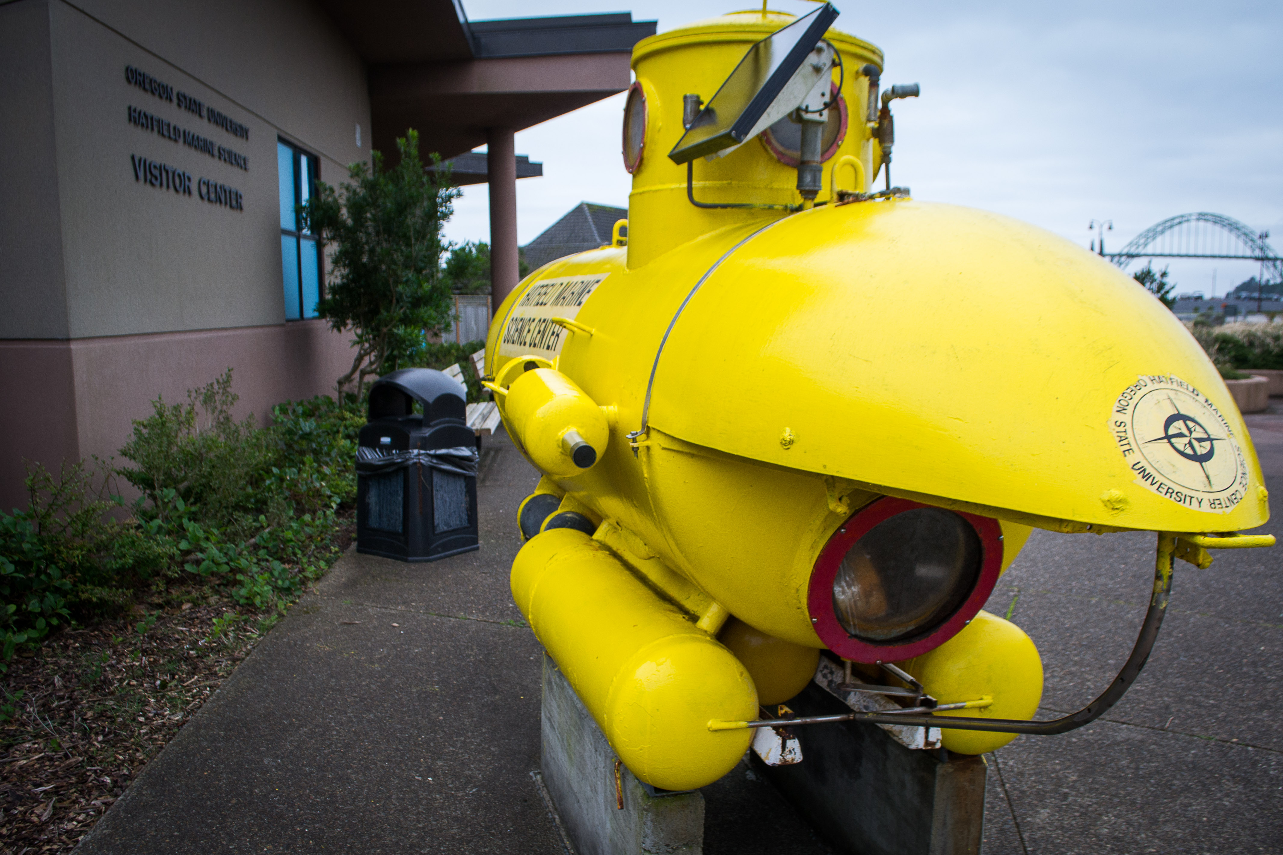 The yellow submarine was in use during the 1980s.